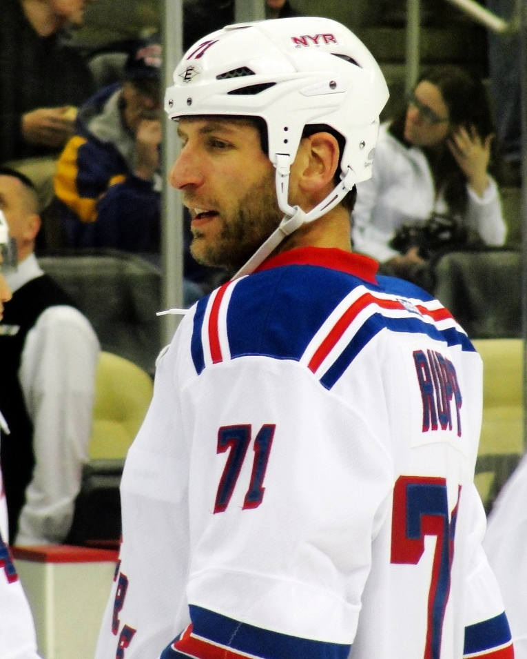 Mike Rupp of the New York Rangers prior to a game against his old team, the Pittsburgh Penguins at Consol Energy Center in Pittsburgh, PA.